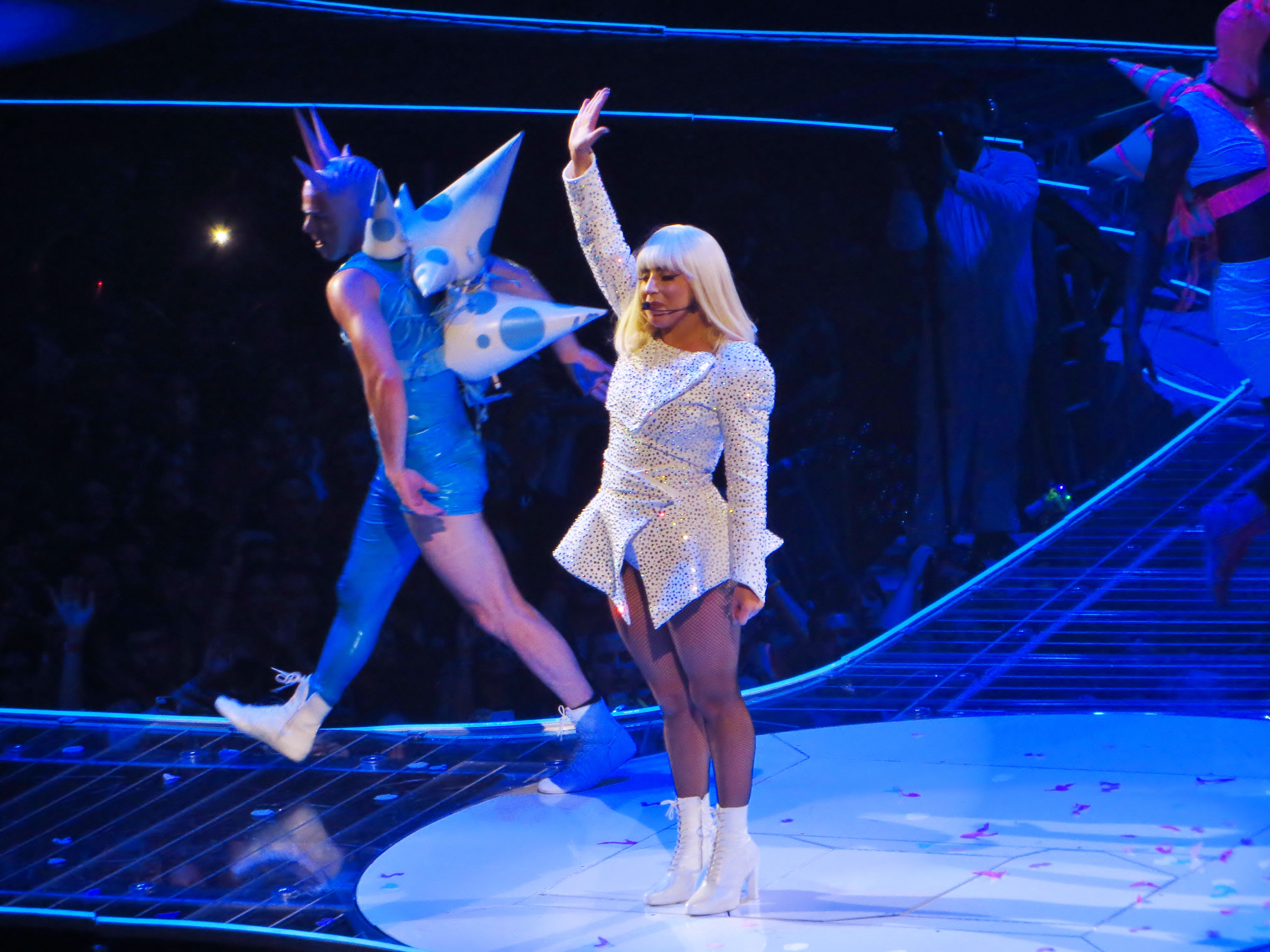 Lady Gaga, ARTPOP Ball Tour, Bell Center, Montréal, 2 July 2014 (36) Gaga performing on ArtRave: The Artpop Ball tour